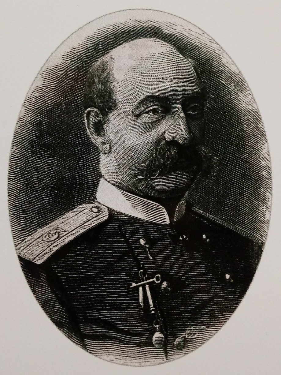 Portrait of Alexander Kusov (1827 - 1877), commander of 11-th Pskov Regiment, reproduction in Vasil Levski Museum, Lovech